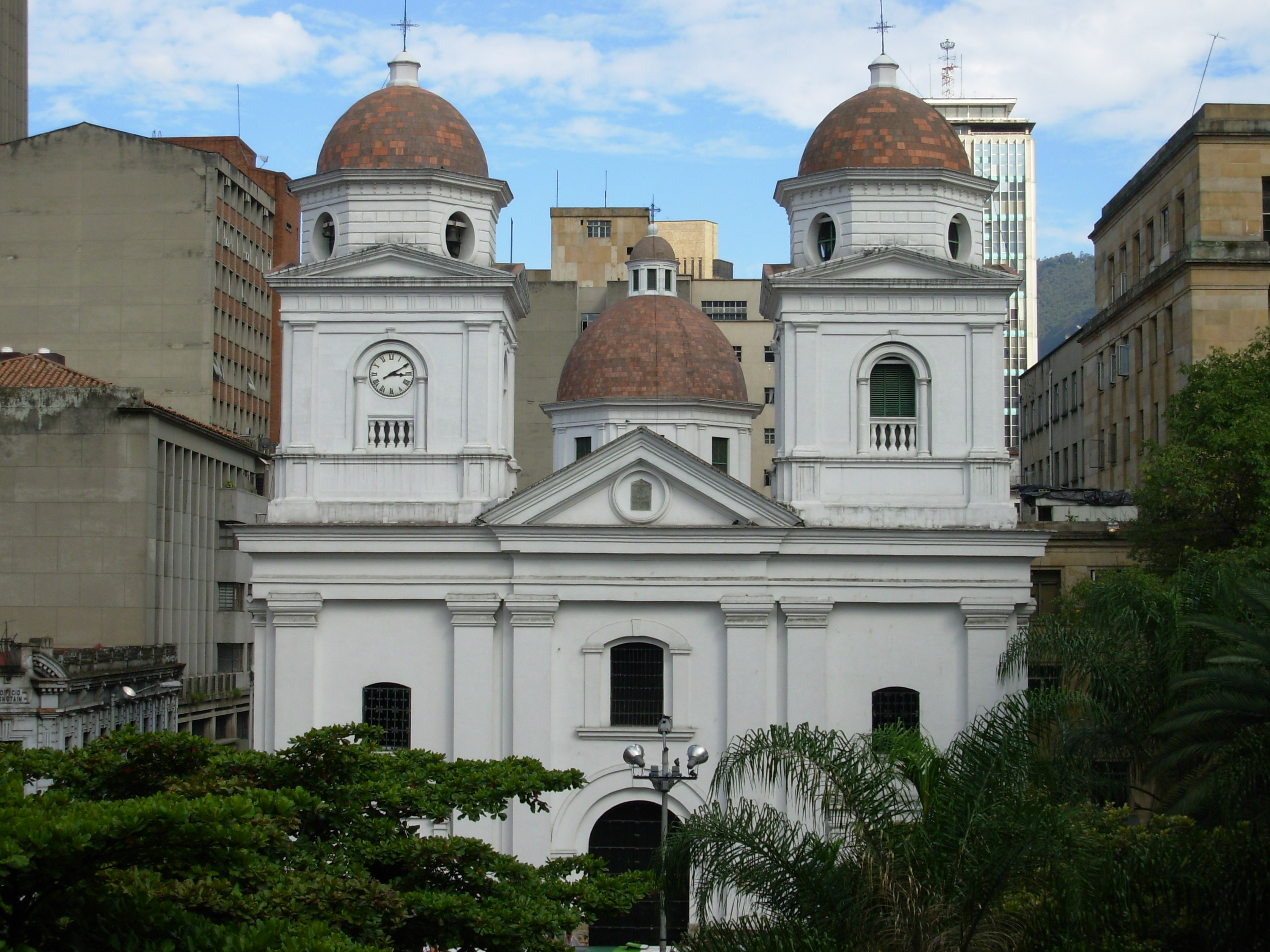 Basílica Menor de Nuestra Señora de la Candelaria